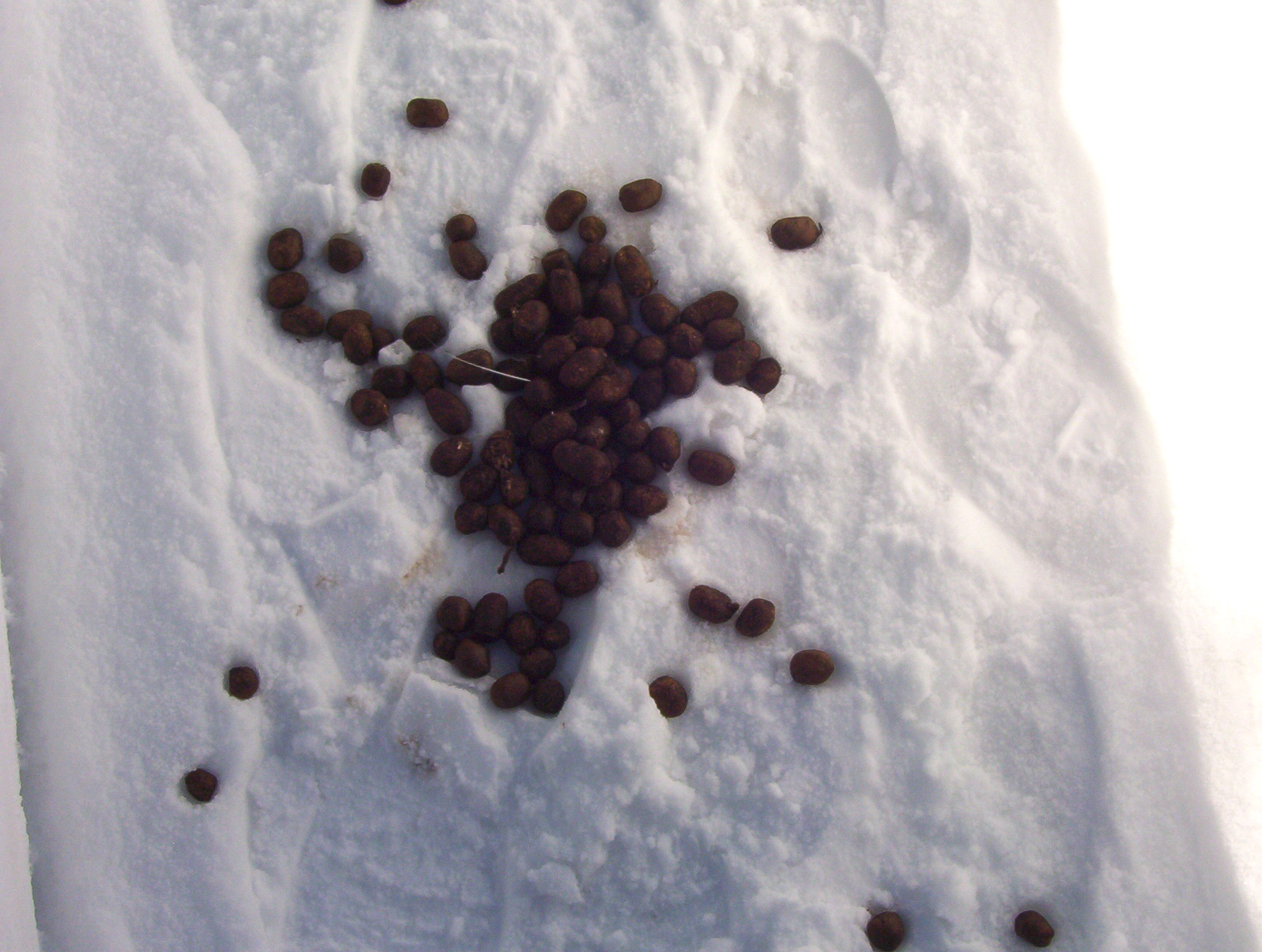 moose scat in snow, Alaska